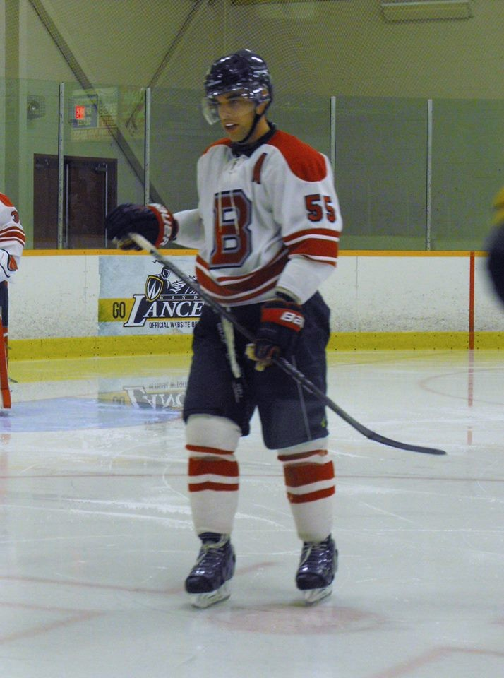 Photo taken by Devan Mighton of CIS men's hockey.